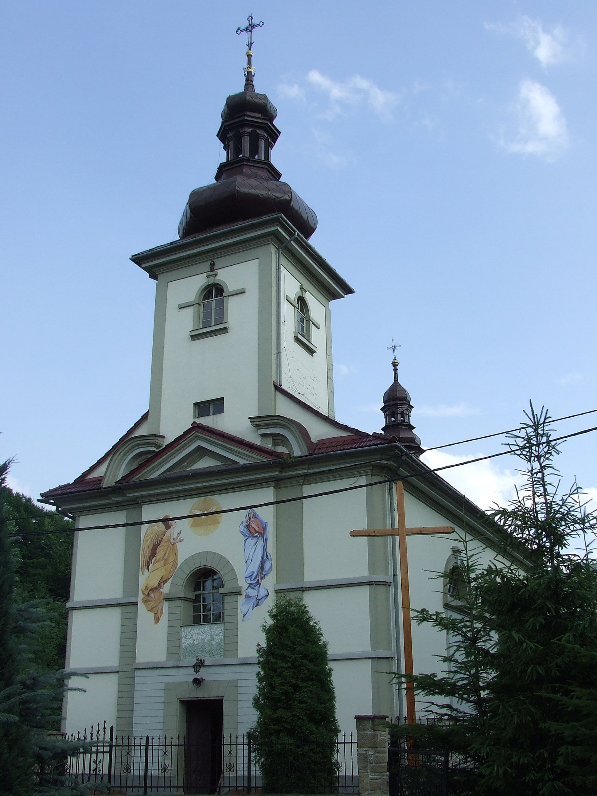 Parish church under summoning the Virgo for Most saint Maria in Harbutowice (in Małopolska) from 1828 year.